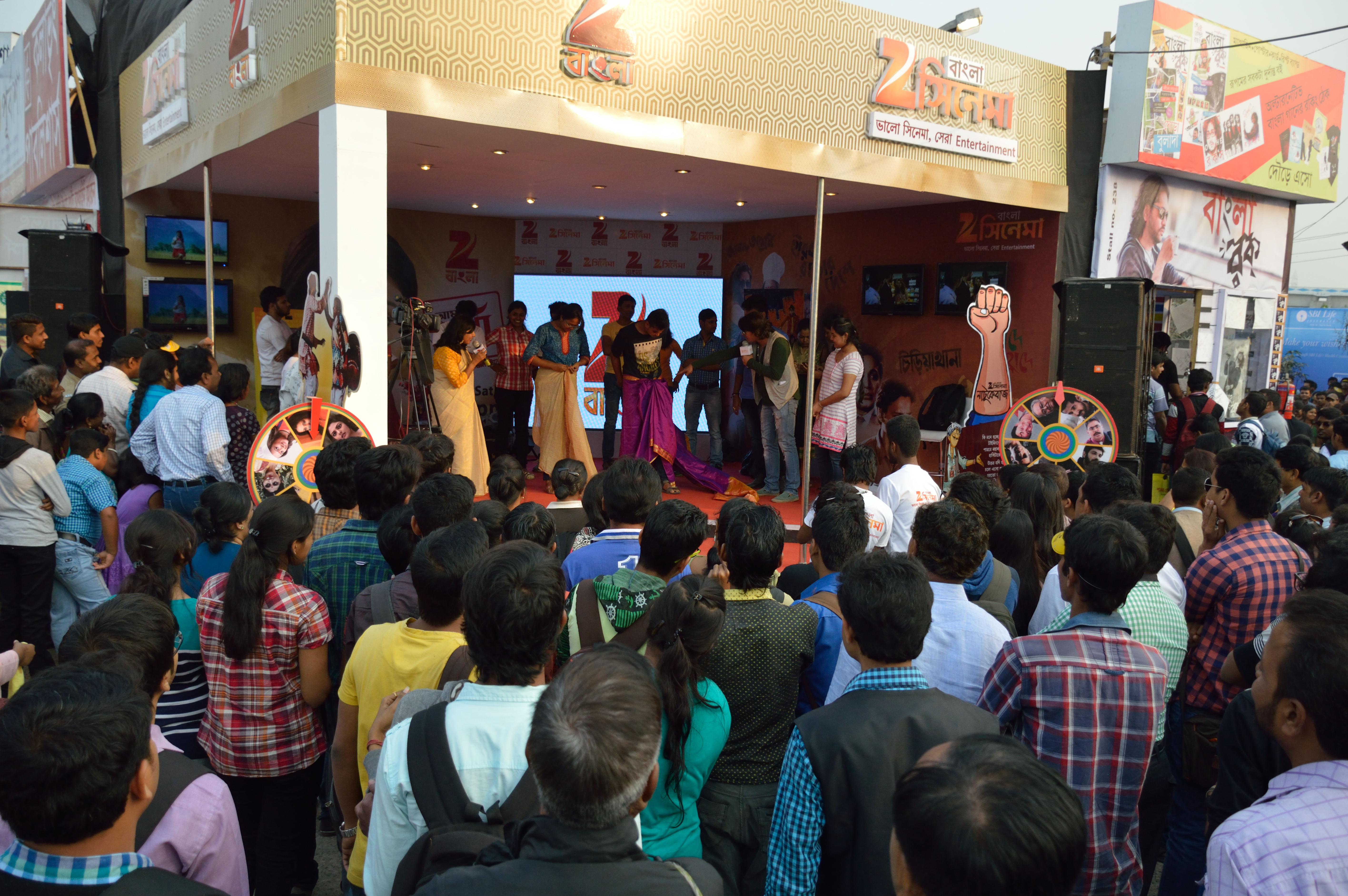 Photographed during the 40th International Kolkata Book Fair at Milan Mela Complex, Kolkata.